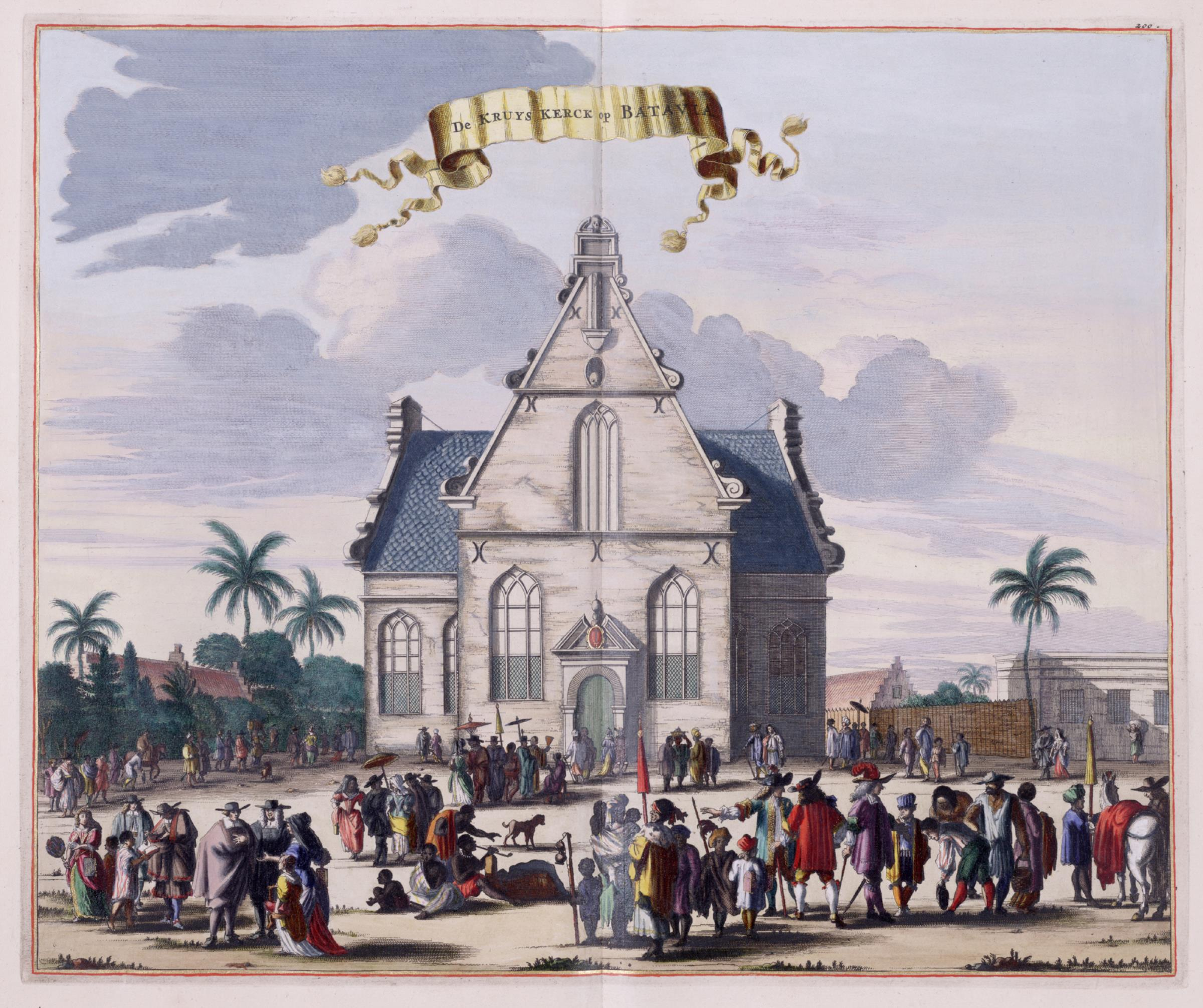 The Dutch church or 'Kruiskerk' at Batavia. A crowd of people is depicted on the square before the church. Top right: 200. Cf. Westfries Museum, inv. nr. 15241.08. The prints in the Atlas Van Stolk and Koninklijke Bibliotheek, Den Haag, inv. nr. 388 A 9 part II, after p. 200, are in black and white, while the print from the Koninklijke Bibliotheek (Atlas van der Hagen, Koninklijke Bibliotheek, The Hague Part 4) has been coloured in.